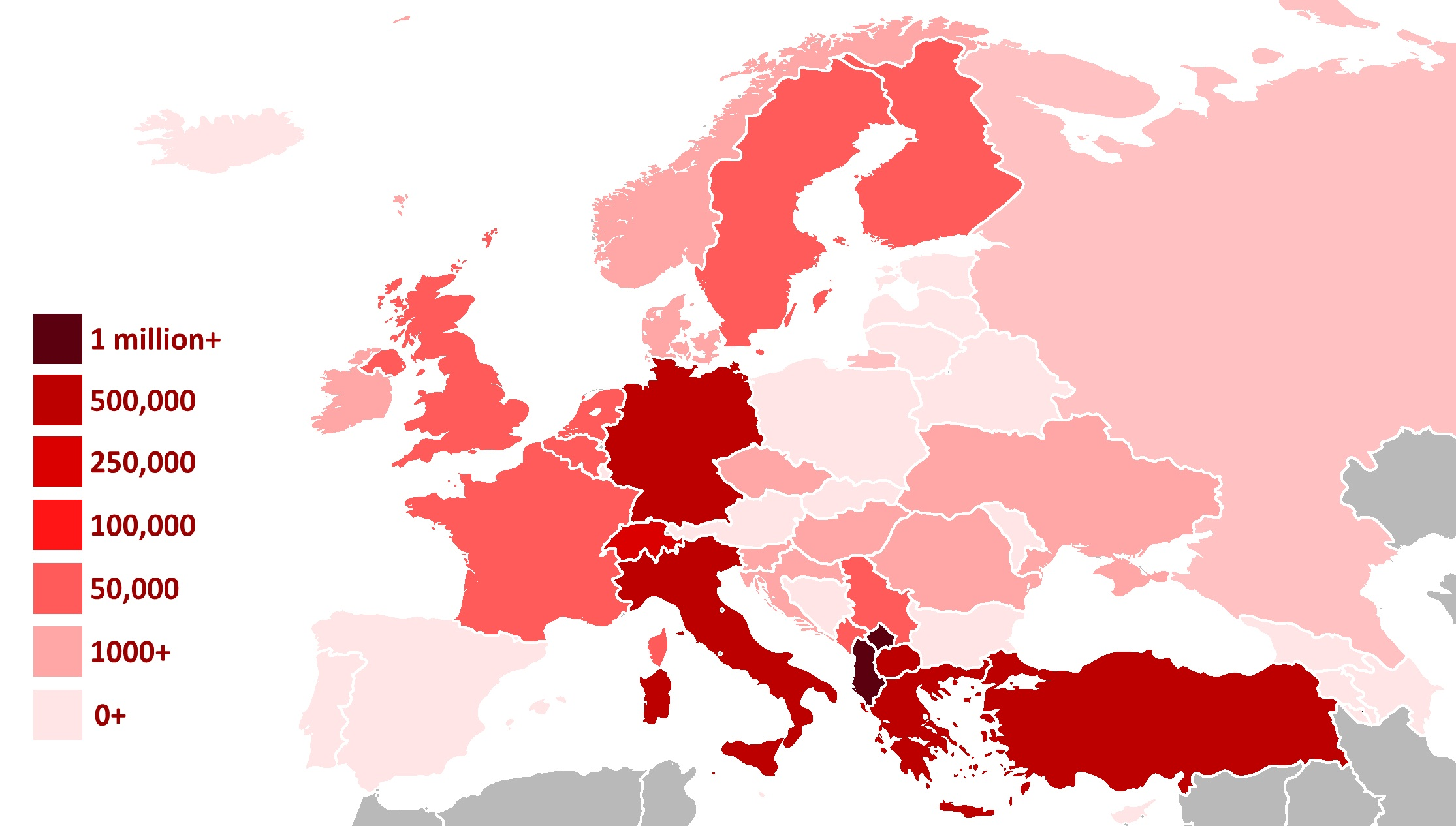 Distribution of Albanian people in Europe.